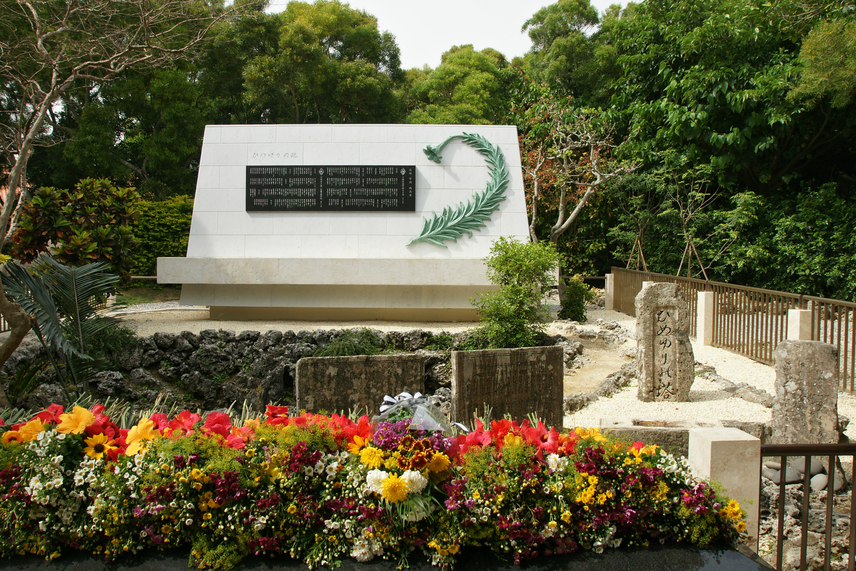 Himeyuri Cenotaph in Itoman, Okinawa prefecture, Japan.